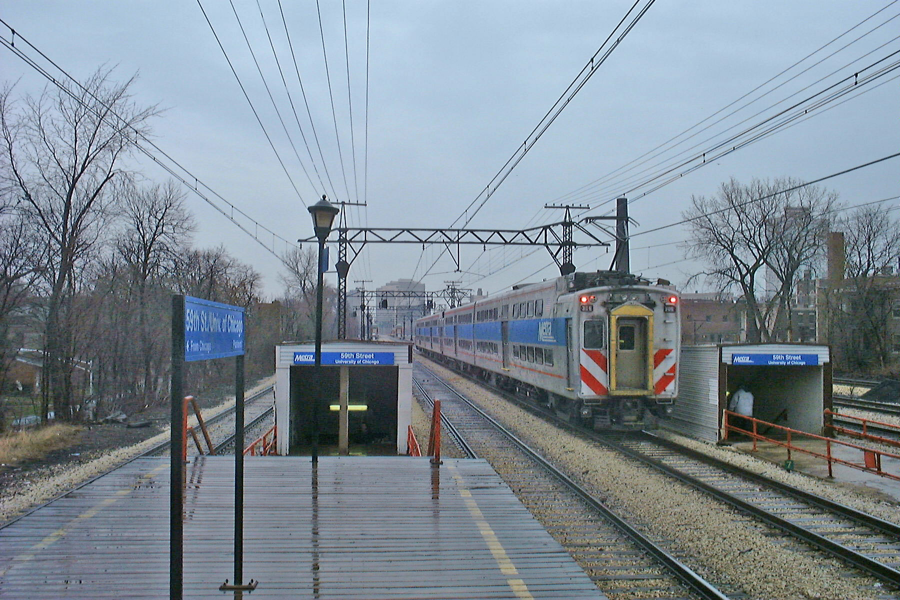 Metra Electric train in 59th Street Station